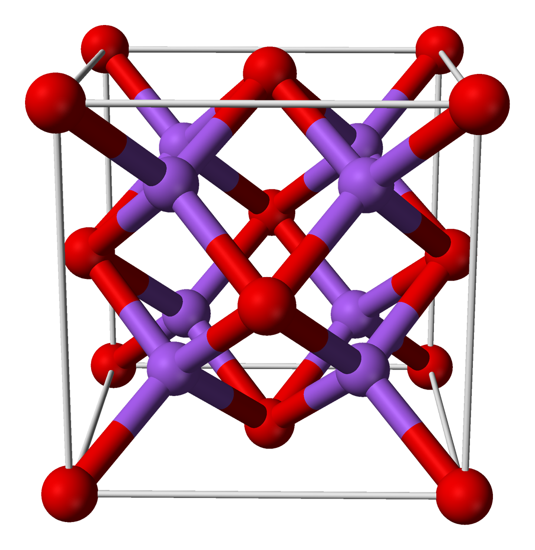 Ball-and-stick model of the sodium oxide (Na2O) unit cell